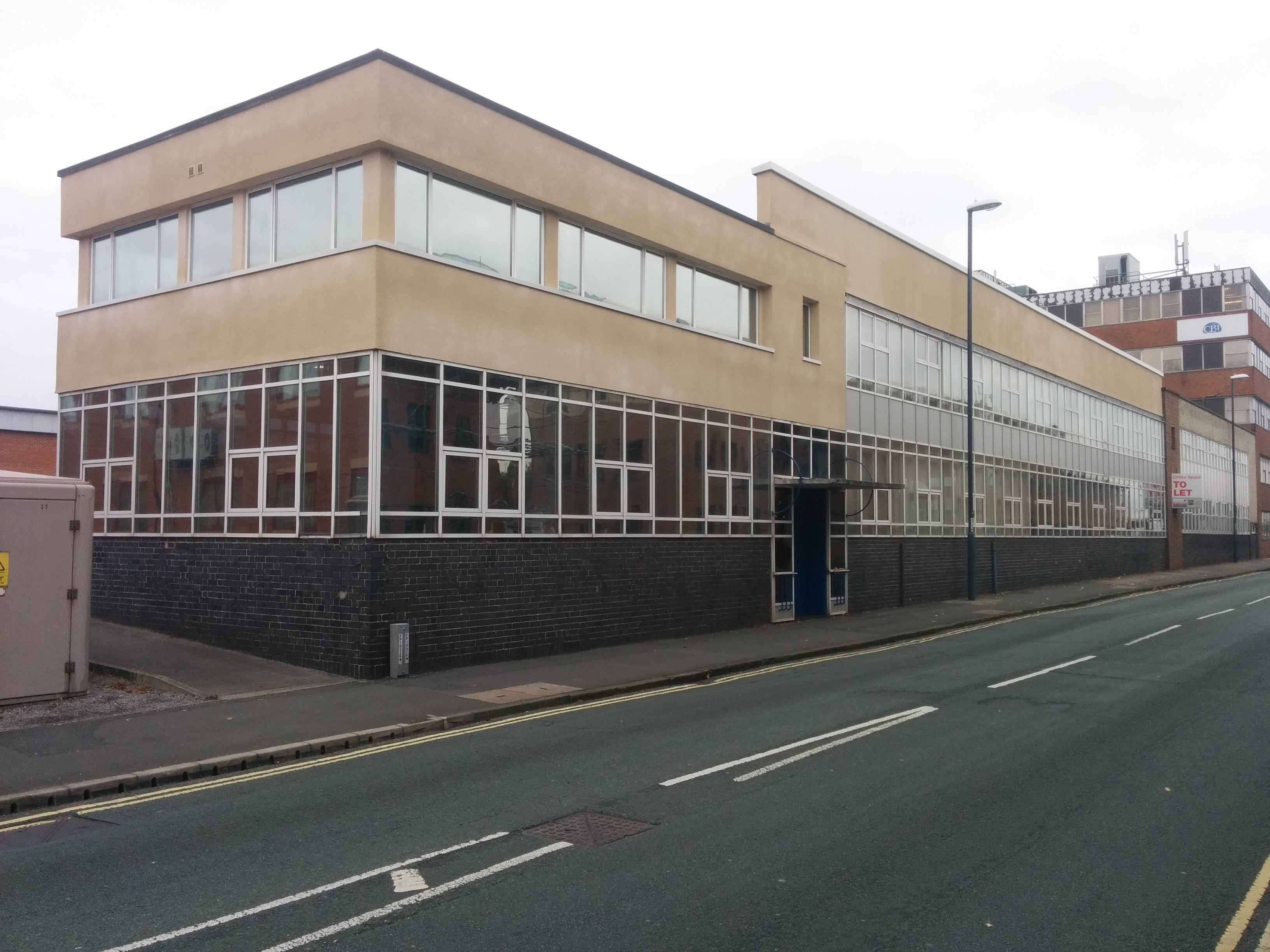 Aiton and Co Stores Road former pipe factory Derby by Norah Aiton